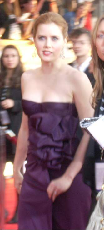 Actress Amy Adams, nominated for "Doubt", at the 15th Screen Actors Guild Awards